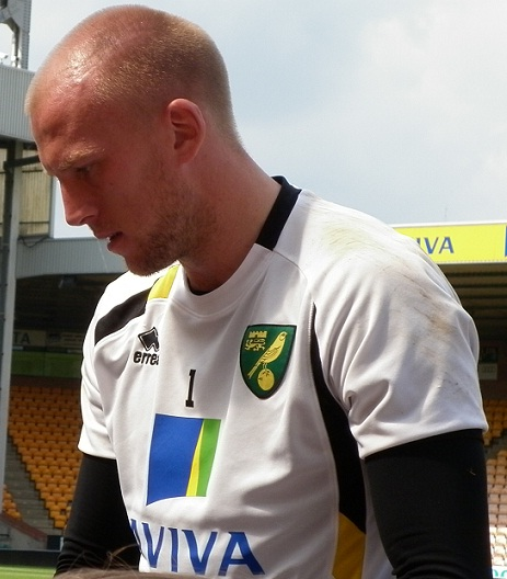 John Ruddy at Norwich City's open training session on 9 August 2012.